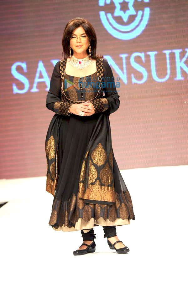 Zeenat Aman walks the ramp for Sawansukha Jewellers at IIJW 2011